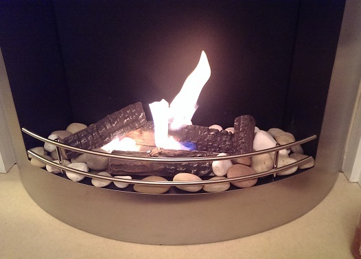 A bio-ethanol fire designed in the form of a traditional fireplace. NOTE: The logs shown are fire-proof ceramic replicas that are added for visual effect only.